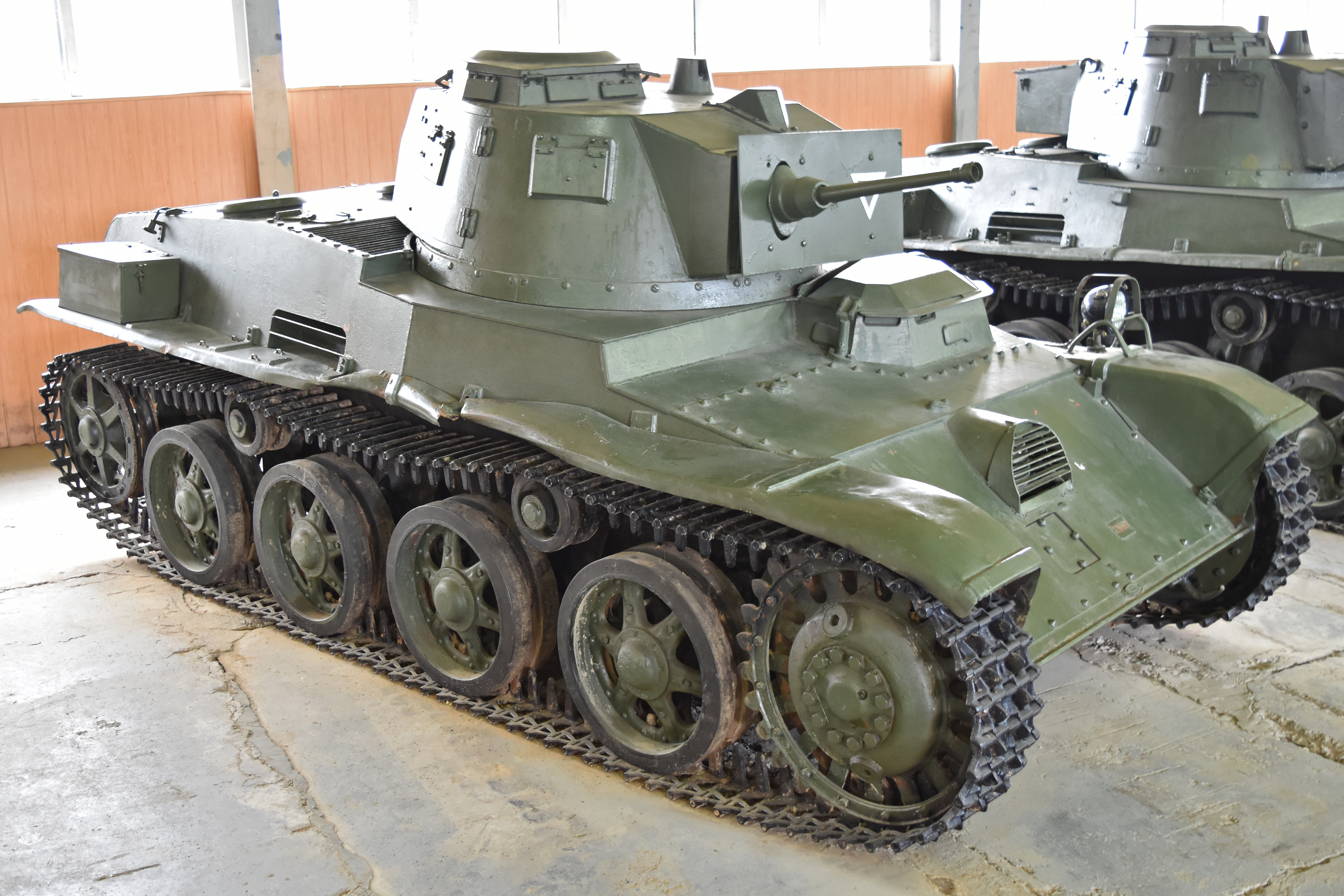 Hungarian light tank, based on Swedish Landsverk L60B and named after the 14th Century Hungarian Knight Miklós Toldi. Only 80 examples of the Toldi I were built. This and the adjacent Toldi IIa are the only surviving examples and are on display in what is best known as Hall 5 of the Kubinka Tank Museum, although its official title is now Pavilion 5 in Area 2 of the Park Patriot museum. Kubinka, Moscow Oblast, Russia. 24th August 2017.